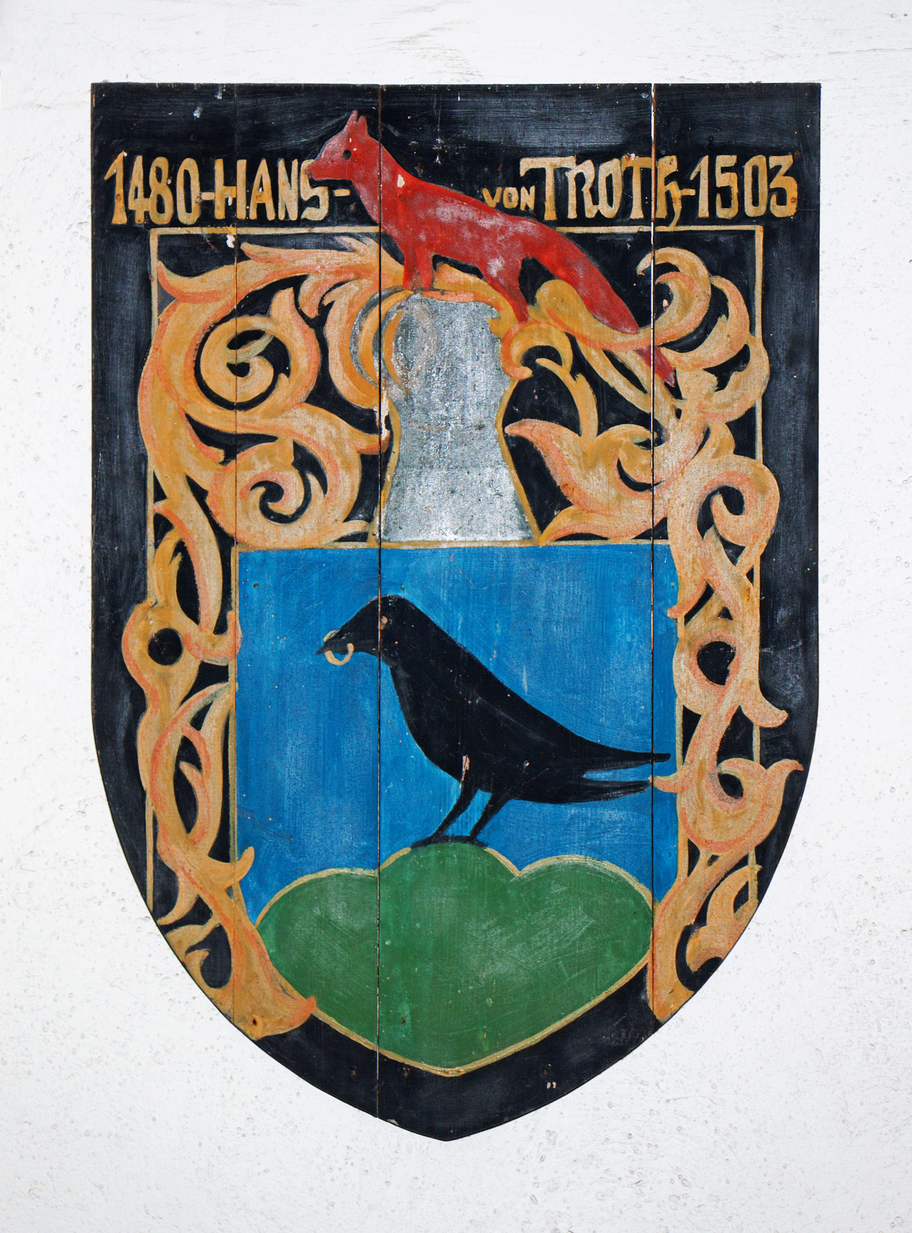 Coat of arms of Hans von Trotha (also called Hans Trapp), * c. 1450, † Oktober 26, 1503, Lord of Berwartstein 1480 - 1503; Berwartstein Castle, Rhineland-Palatinate, Germany.